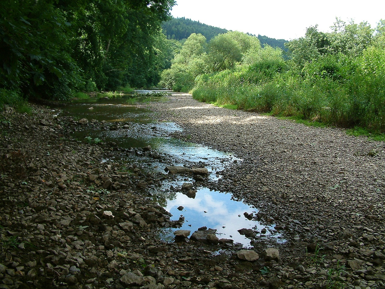 The first Danube (Donau) sinking at village Immendingen, Germany. The water of Danube appears 12 km from here in the spring of Ach river, which flows through the Lake Constance (Bodensee) into the river Rhine (Rhein). So we can say the river Danube feeds the river Rhine. Amazing!!!